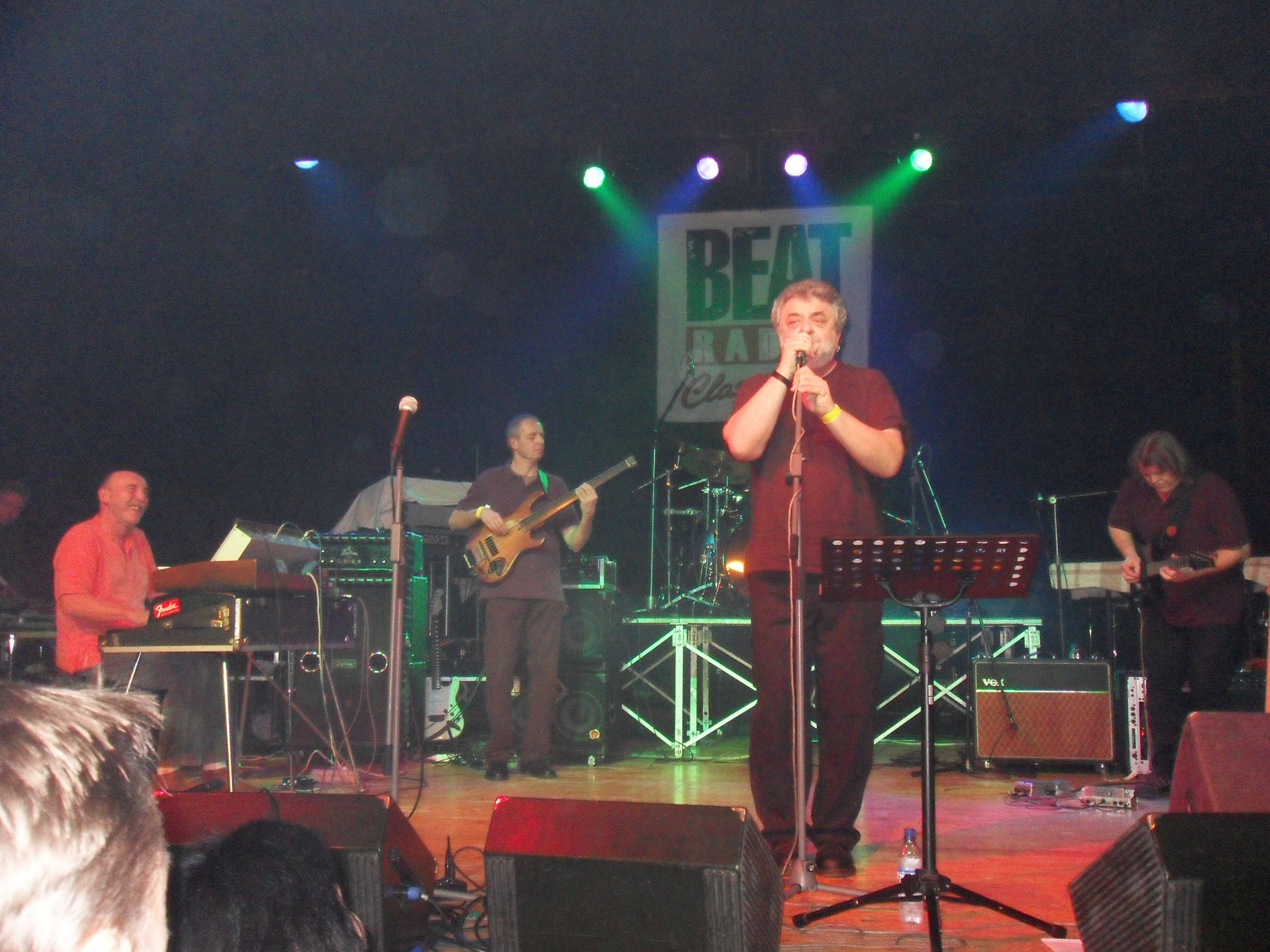 Czech band Jazz Q, Brno, Czech Republic